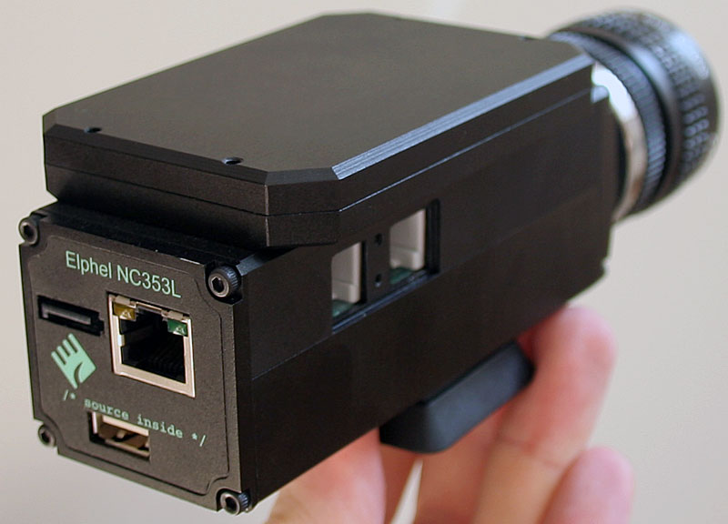 Elphel open source camera NC353L